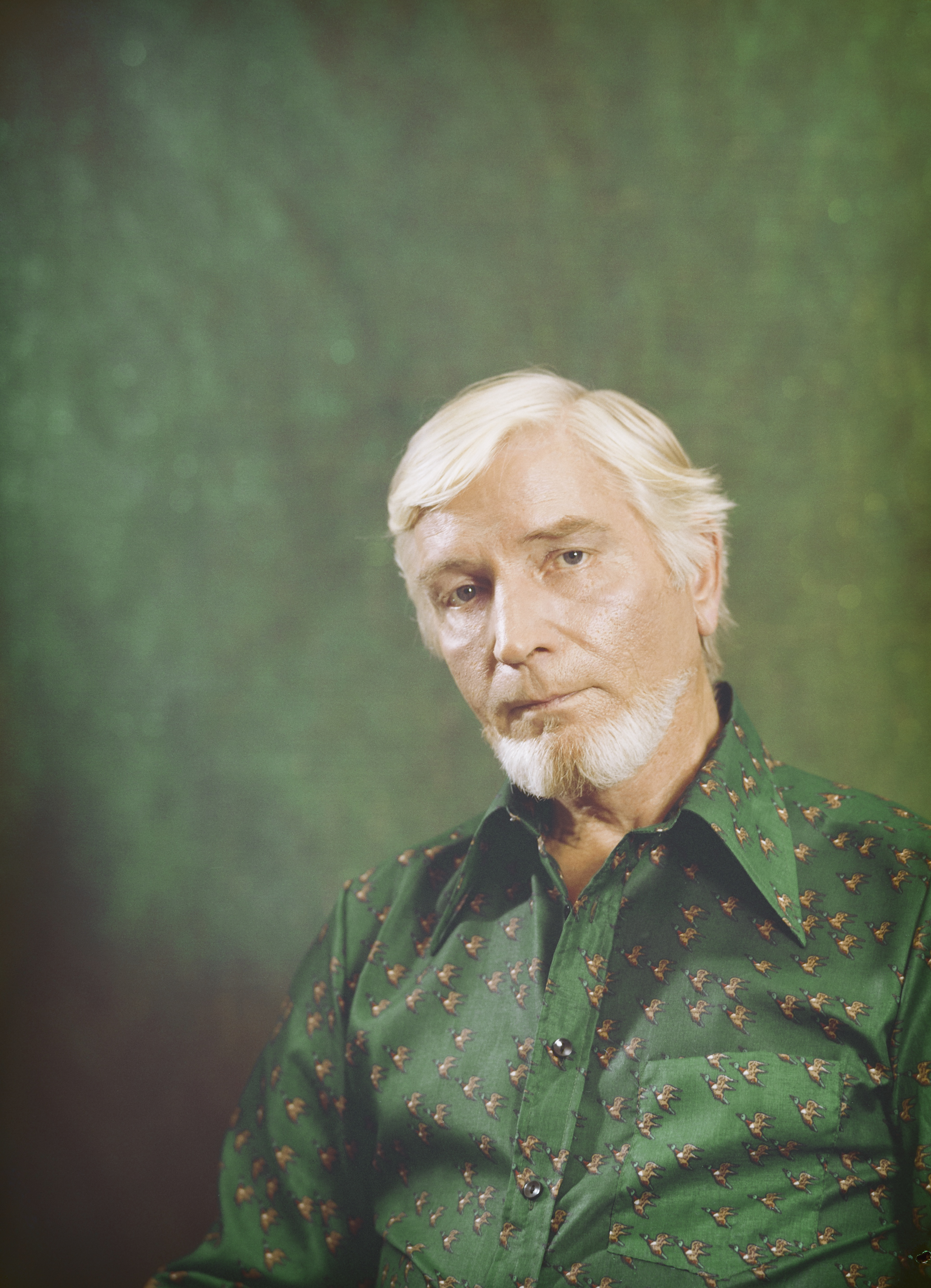 Photograph of the Finnish odontologist and professor Kuno Nevakari (1913–1984).